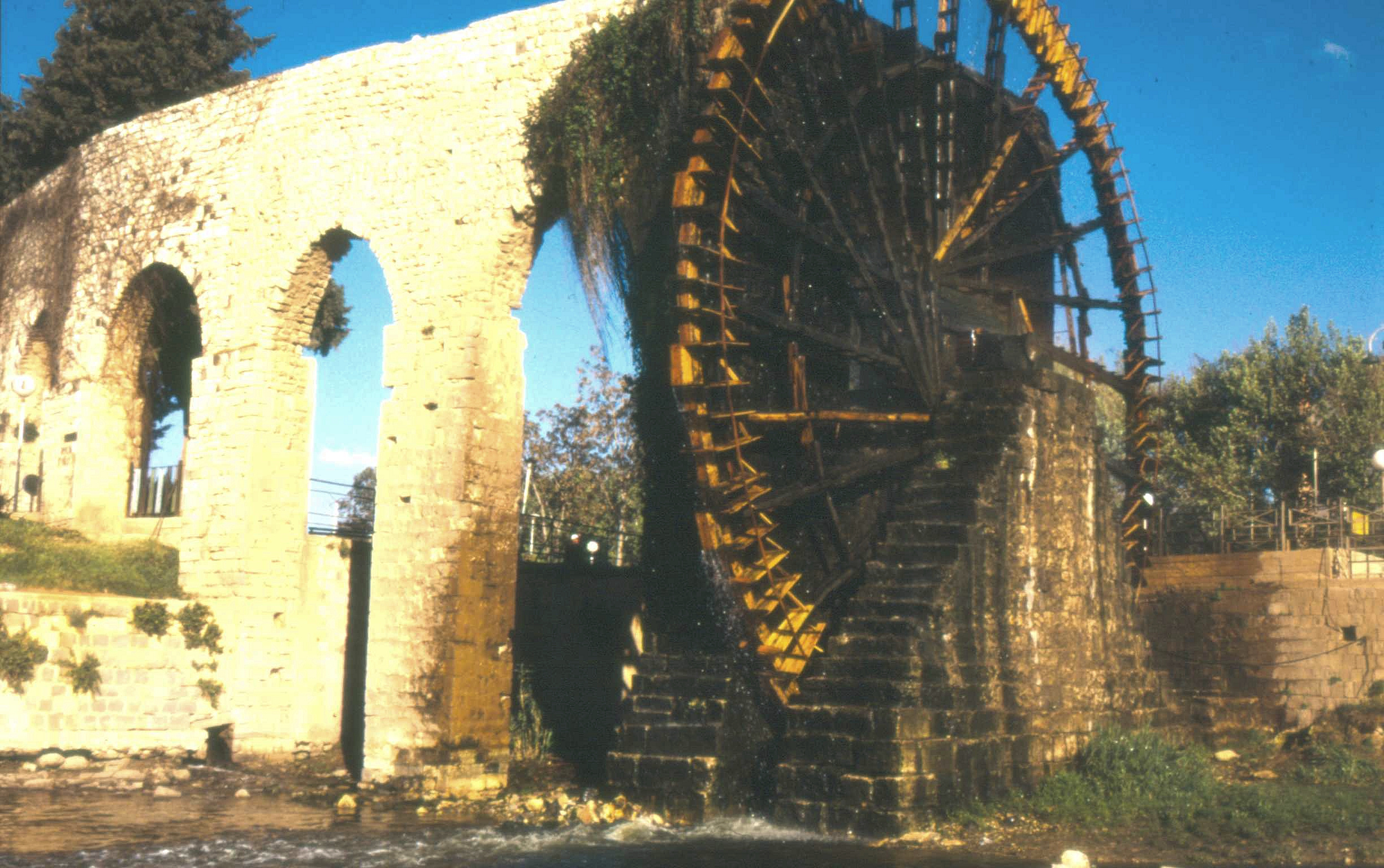 Waterrad in Hama